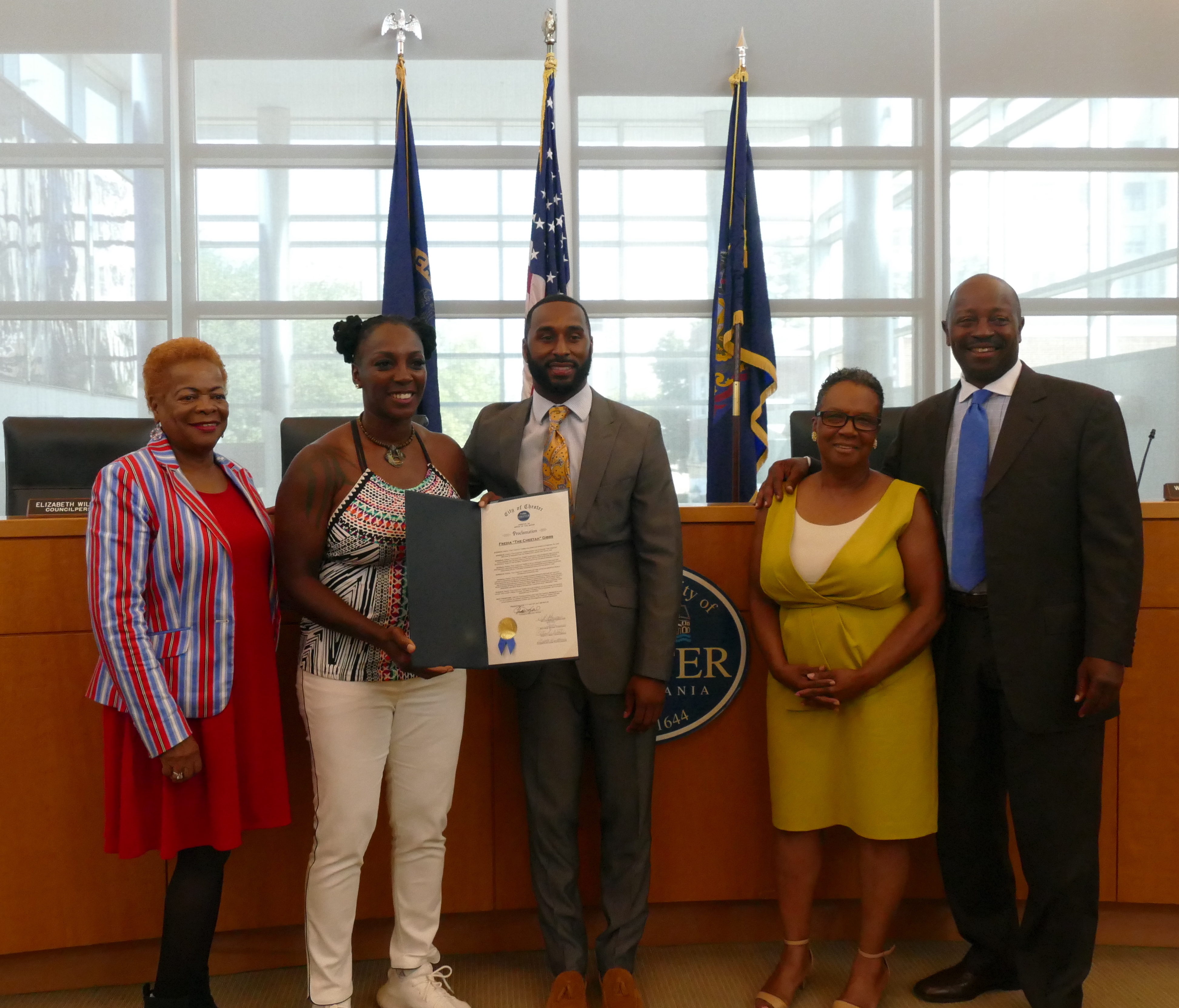 first world